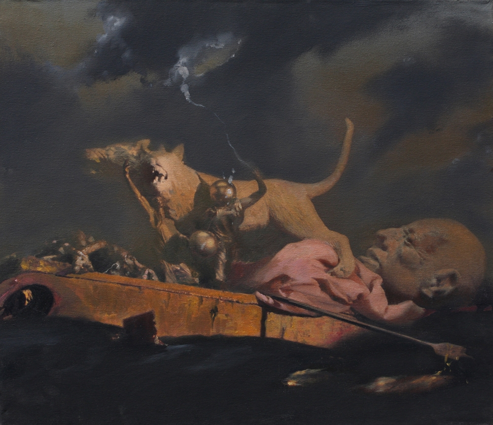 Oil on Canvas -- 26"x32"